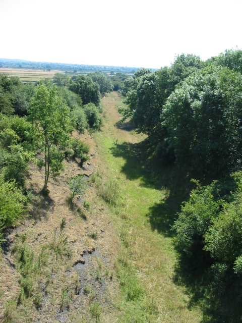 The trackbed of the Pickering - Helmsley railway line near Gallow Heads. When the railway closed the trackbed and railway properties on the line were sold off to farmers and local people. As a result most of the former railway line can not be used as an amenity by the general public.